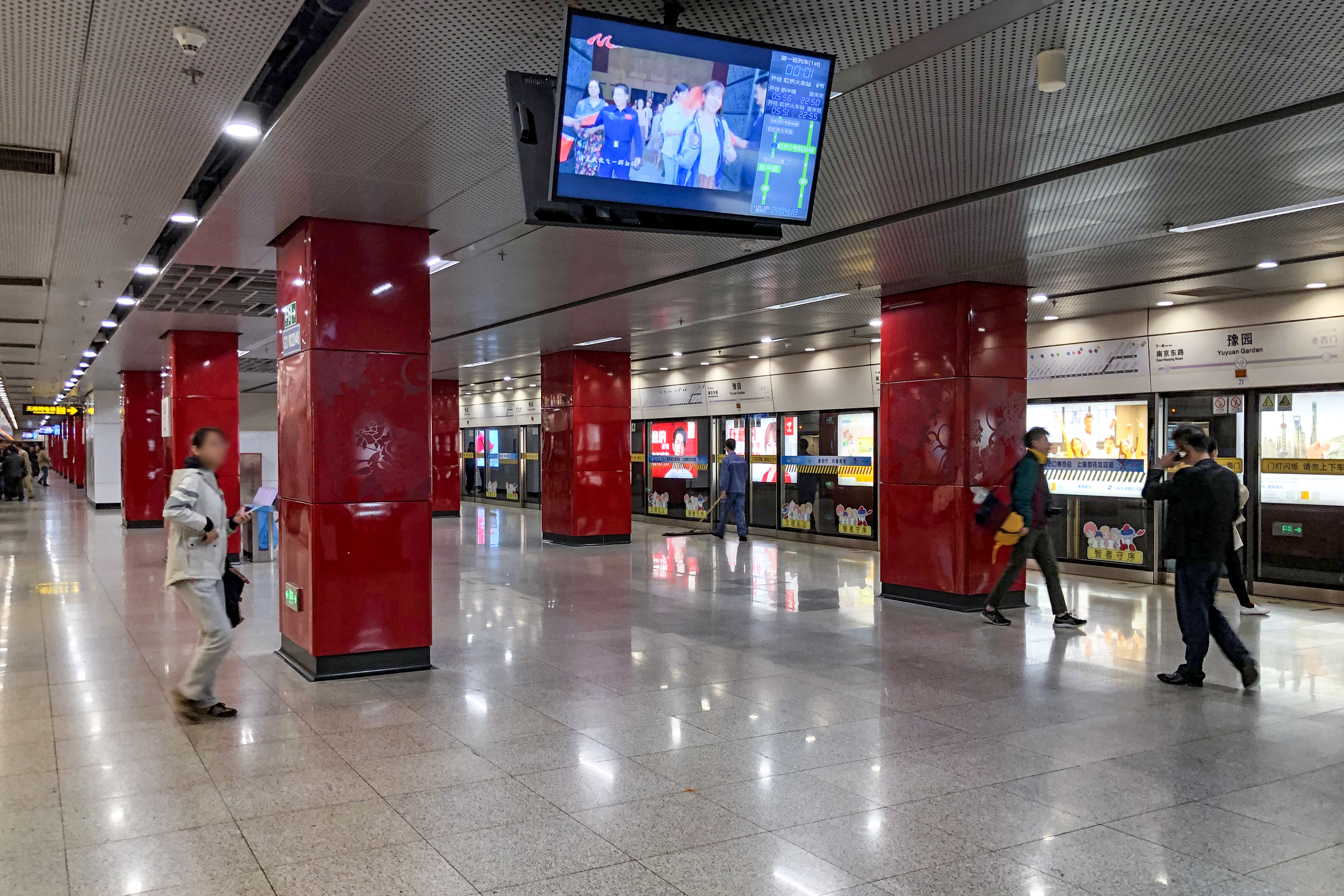 Future interchange station for Line 14.